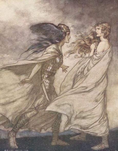 Brünnhilde is visited by her Valkyrie sister Waltraute. Originally the image stems from Richard Wagner's Siegfried and the Twilight of the Gods, published in the same way in 1911 in London (William Heinemann) and New York (Doubleday, Page).